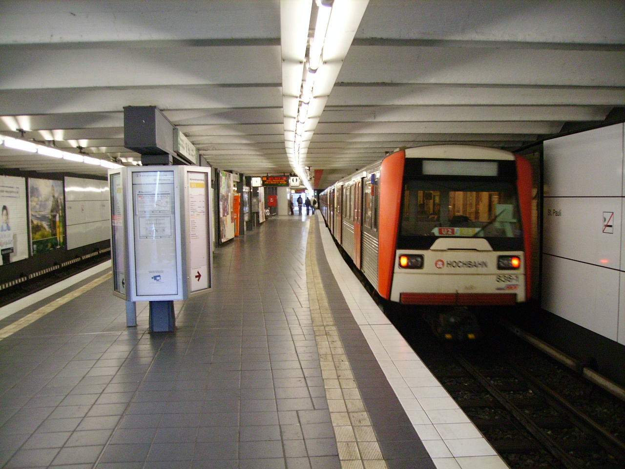 Platform at St. Pauli station